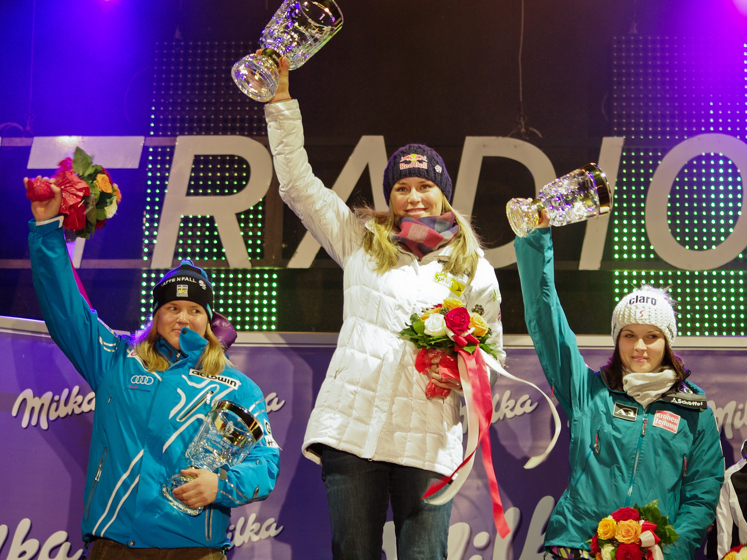 Prize giving ceremony for the World Cup Downhill in Altenmarkt-Zauchensee (Austria) on 8 January 2011: 1st place: Lindsey Vonn (middle), 2nd place Anja Pärson (left), 3rd place: Anna Fenninger (right).